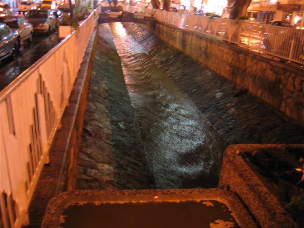 Ga'aton River